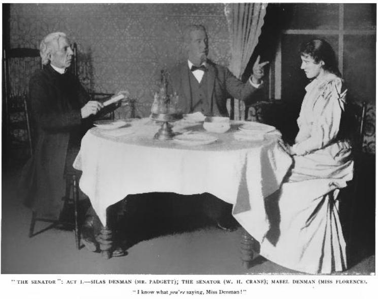 Scene from popular 1890 play, The Senator, appearing in the Illustrated American, December 6, 1890